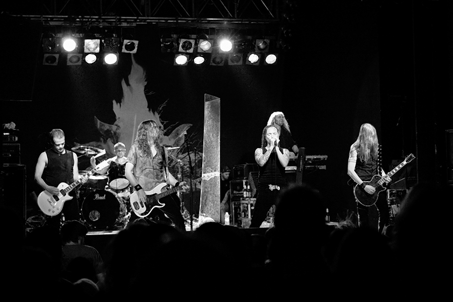 Concert Photo of Amorphis in Berlin, Columbia Club, 07.10.2009